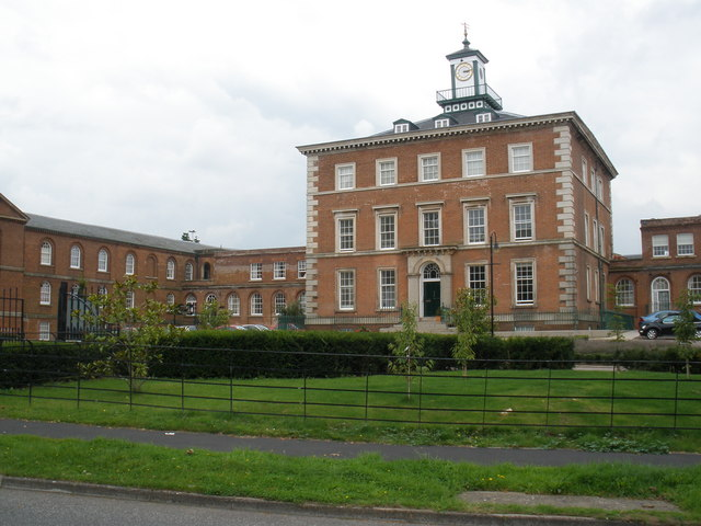 Devington Park, Exminster A huge complex of apartments, housed in what was once the Devon Mental Hospital.